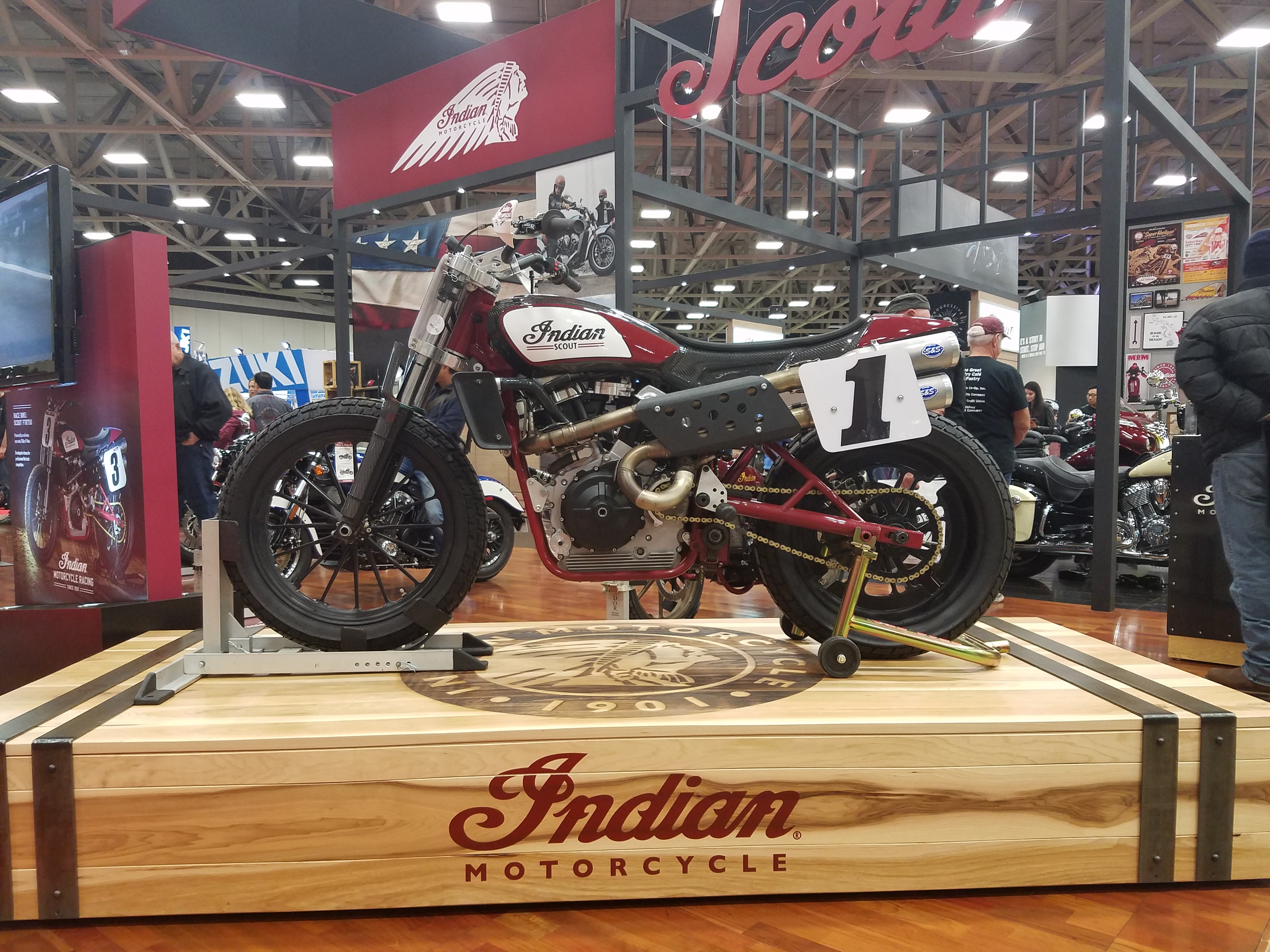 Indian Scout FTR750 dirt track racer on display at Progressive International Motorcycle Show in Dallas, Texas.